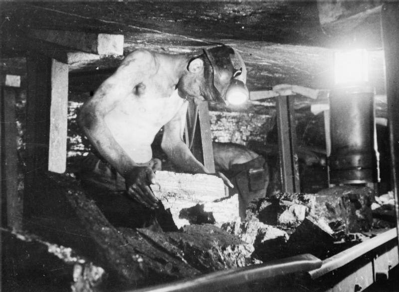 Men of the Mine- Life at the Coal Face, Britain, 1942 A miner loads chunks of the coal that he has just cut from the coal face onto the conveyor which will take the coal back to the shaft.